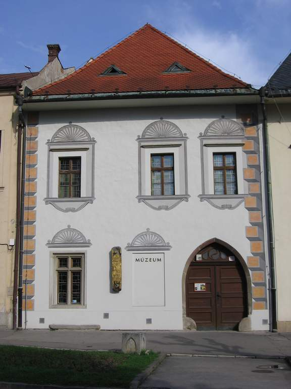 The main square of the oldtown in Levoča - Master Paul's Museum building.